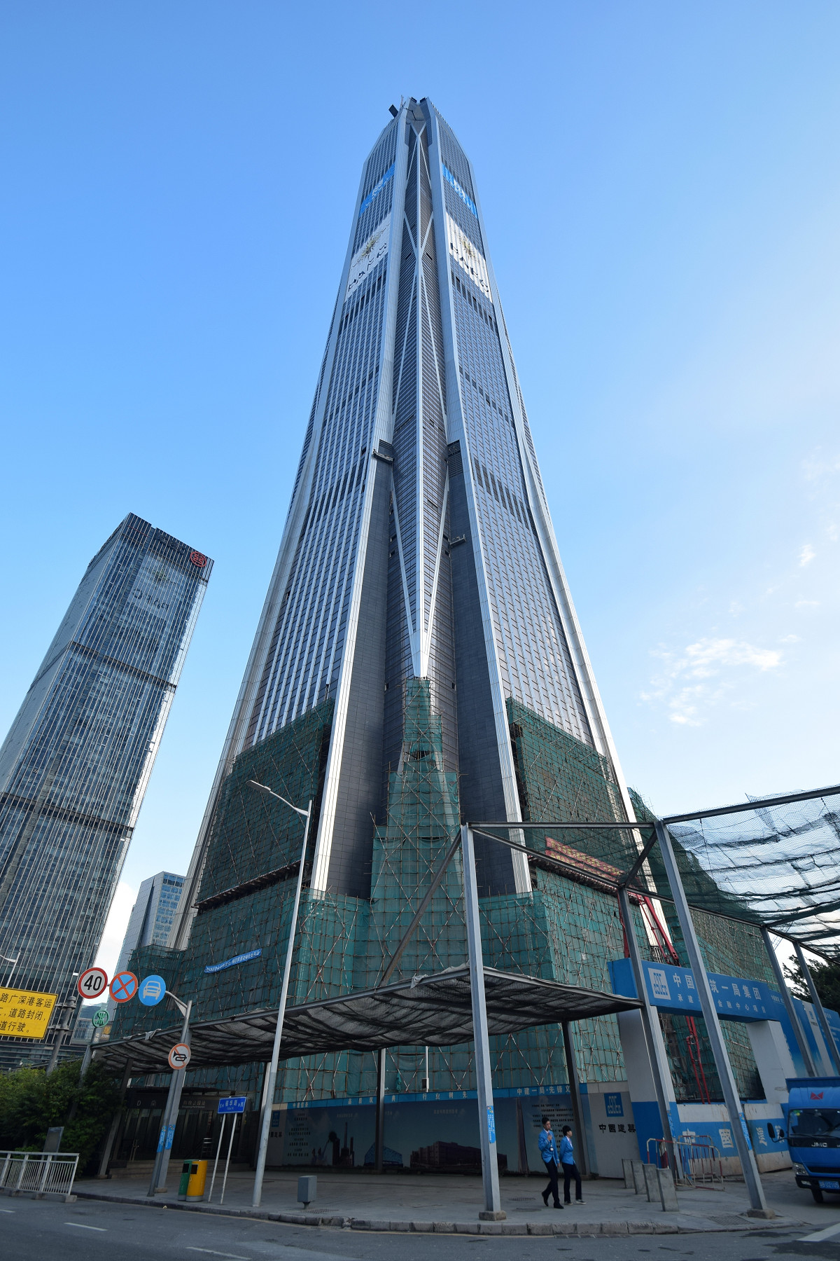 Ping An Finance Center, Shenzhen